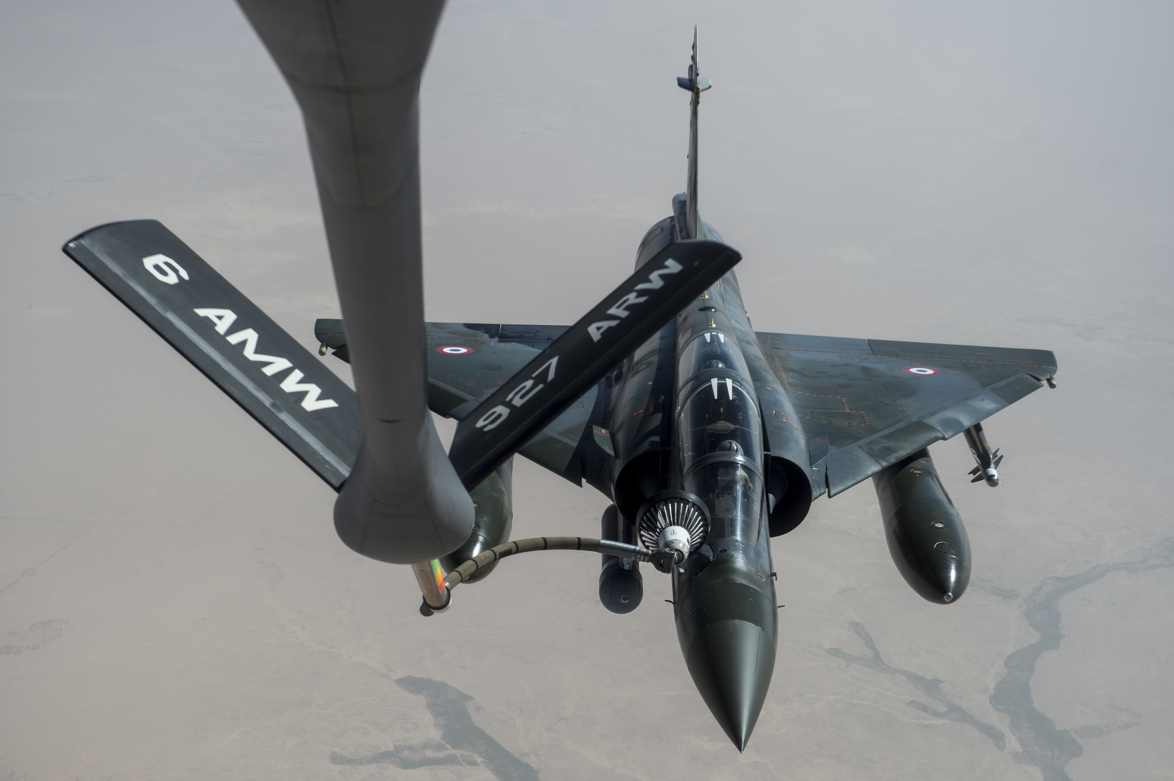 A French Mirage 2000D aircraft receives fuel from a U.S Air Force KC-135 Stratotanker aircraft over Iraq April 8, 2016. President Barack Obama authorized U.S. Central Command to work with partner nations to conduct targeted airstrikes of Iraq and Syria as part of the comprehensive strategy to degrade and defeat the Islamic State of Iraq and the Levant, or ISIL. (U.S. Air Force photo by Staff Sgt. Corey Hook)